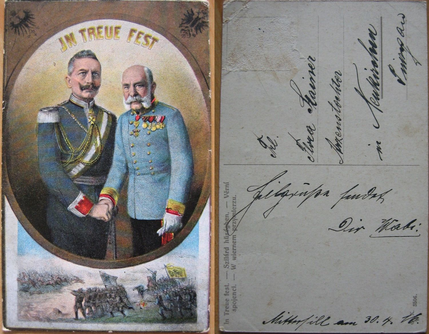 WWI-era postcard (dated 30 April 1916) showing emperors Wilhelm and Franz Joseph with the motto "In Treue Fest" (JN TREUE FEST, "steadfast in loyalty"), the motto of the kingdom of Bavaria. The German motto is given in Hungarian, Czech and Polish translation on the back: In Treue fest. — Szilárd hűségben. — Věrní spojenci. — W wiernem przymierzu. The text of the postcard is a simple greeting, Liebe Grüße sendet Dir [?]Wabi. it is dated Mittersill am 30. 4. 16. and addressed to one Frl. Irma Steiner, Arzenstochter in Neukirchen, Pinzgaw i.e. it was sent over a distance of less than 20 km within the Duchy of Salzburg (in Austria-Hungary since 1867, formerly part of the kingdom of Bavaria).